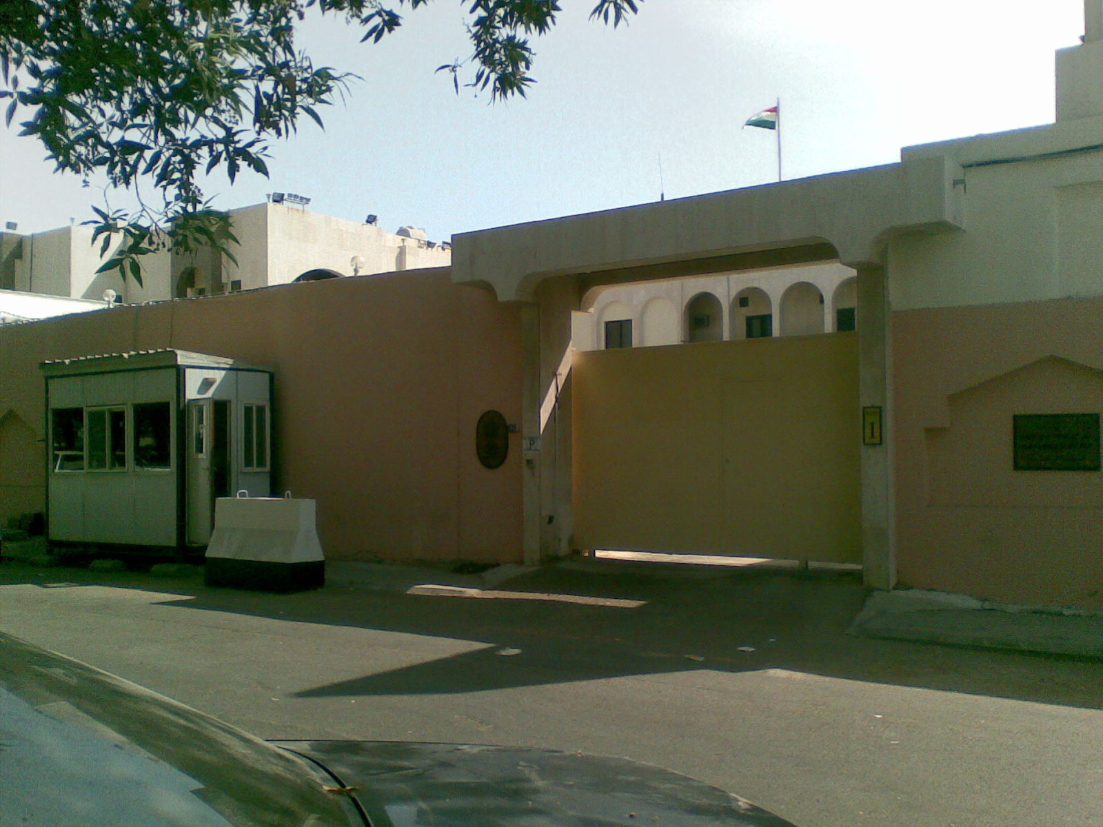 Old Indian embassy at Jeddah